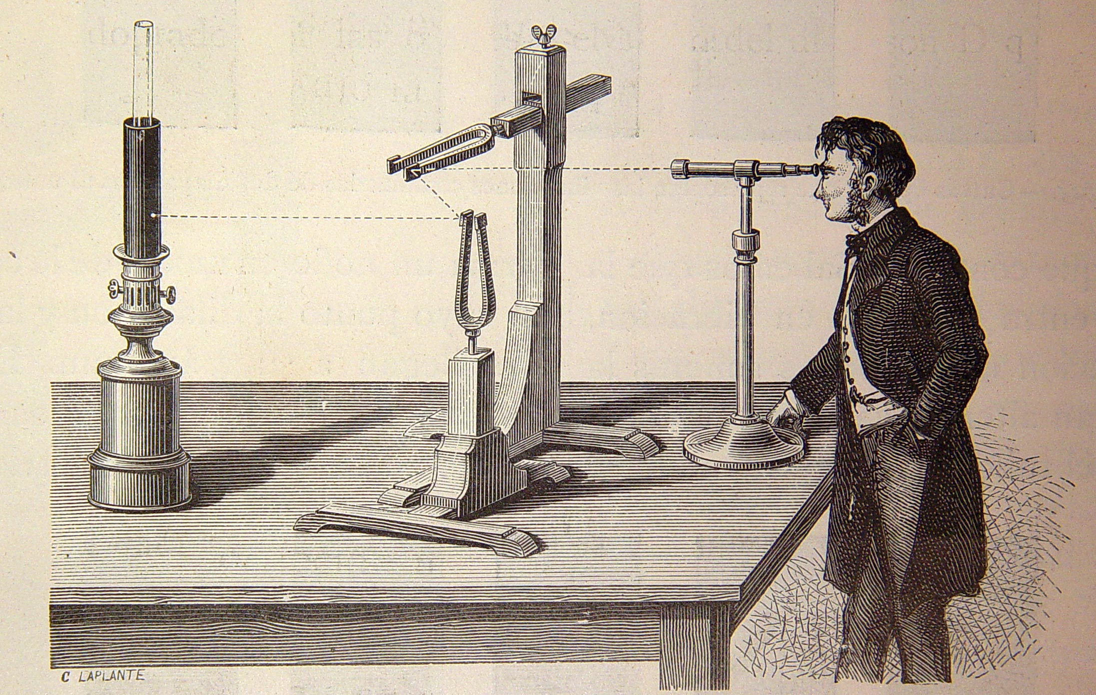 "Optical study of vibratory movements by the method of M. Lissajous". Ilustraciones pertenecientes al libro : El mundo físico : gravedad, gravitación, luz, calor, electricidad, magnetismo, etc. / A. Guillemin. - Barcelona Montaner y Simón, 1882